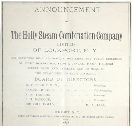 Announcement of the Holly Steam Combination Company